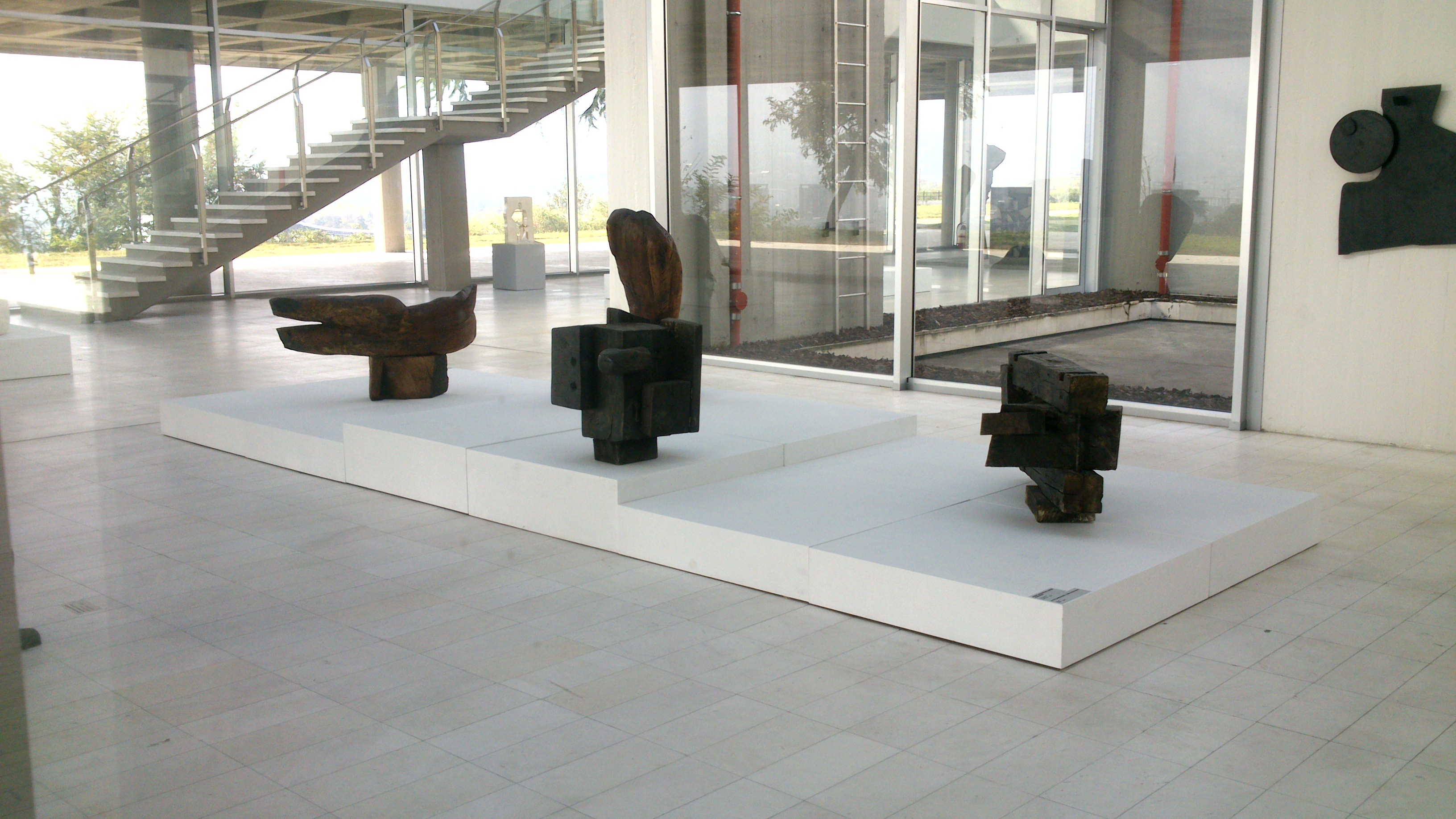 The Museum of Contemporary Art in Skopje, Macedonia Ова е фотографија на споменик на културата во Македонија со типски код: B08This is a a photo of a cultural monument in North Macedonia with type id: B08